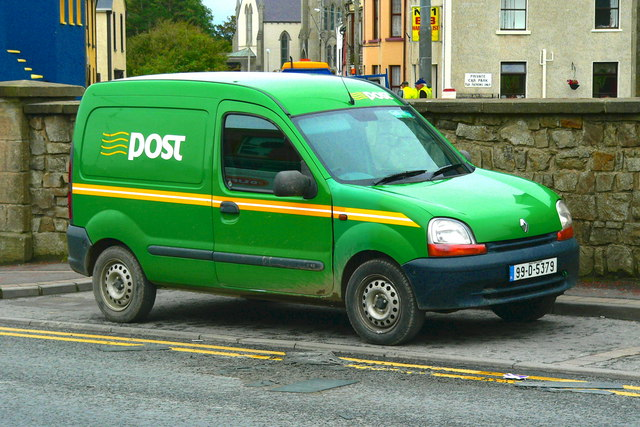 Bundoran - Post vehicle parked near post office As seen along N15 at SW end of town.